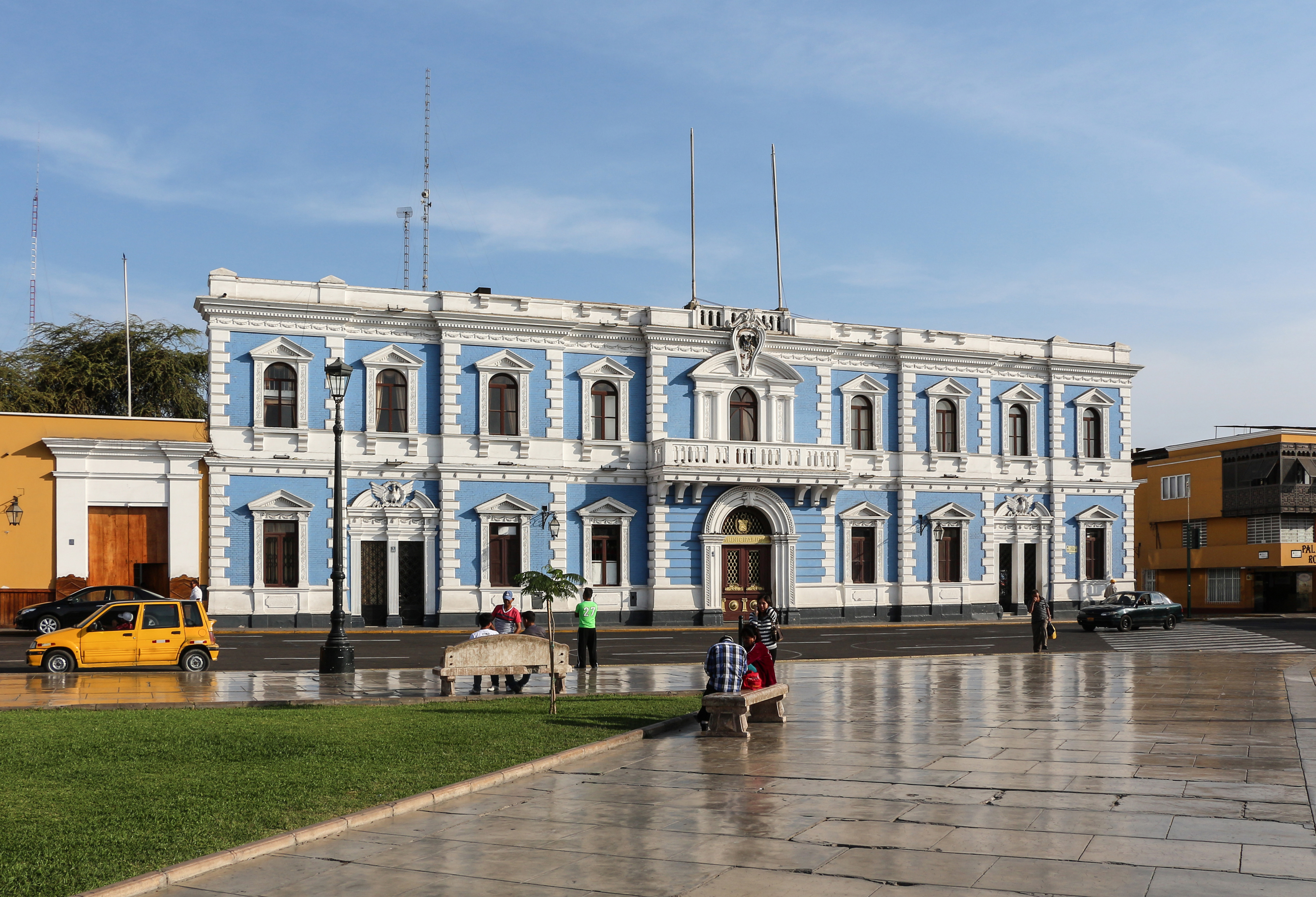 Trujillo Town Hall, Peru